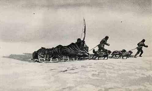 Mackintosh and Spencer-Smith being dragged on the sledge - Antarctica